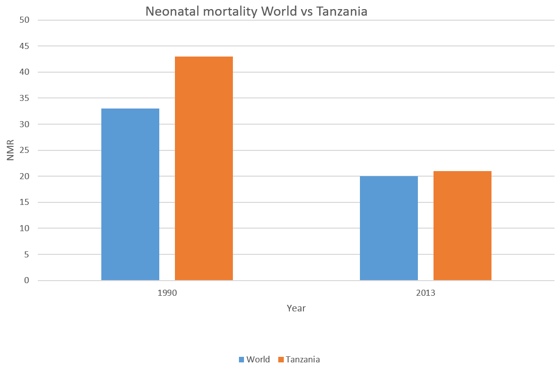 A comparison of Neonatal Mortality rate between World and Tanzania